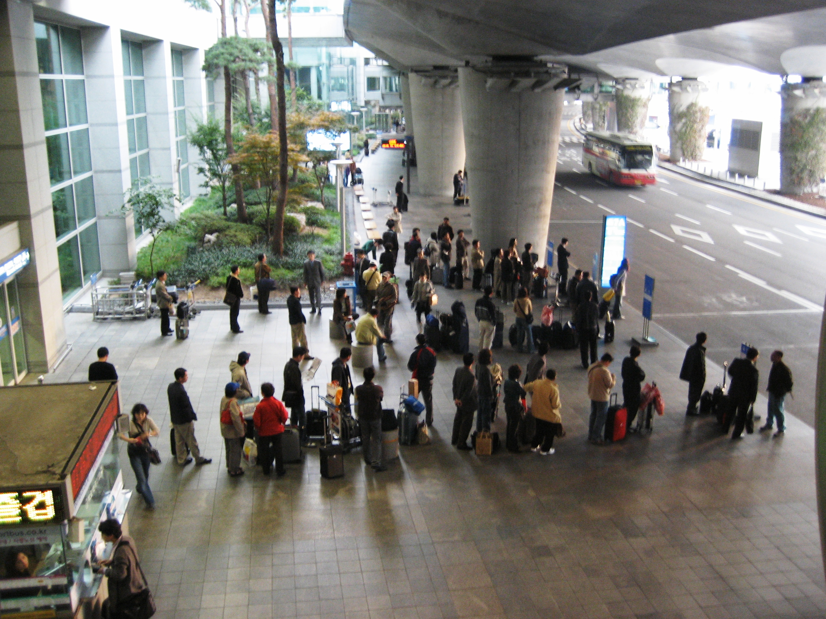 Incheon International Airport,Bus terminal over view.